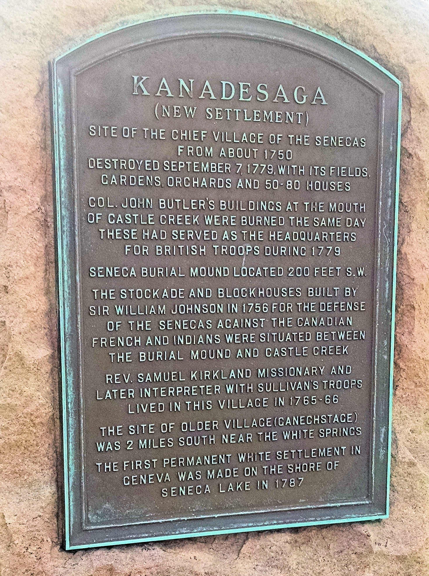 This plaque shows the spot of the Native American village Kanadesaga located north of present day Geneva, New York in Ontario County. Front of marker